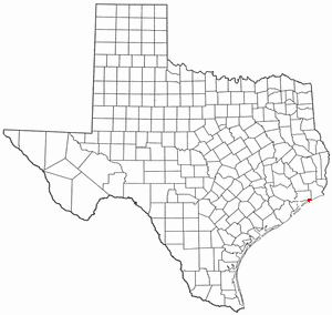 Licensing Original upload log The original description page was here. All following user names refer to en.wikipedia. 2004-08-27 19:35 Seth Ilys 300×284×8 (15885 bytes)